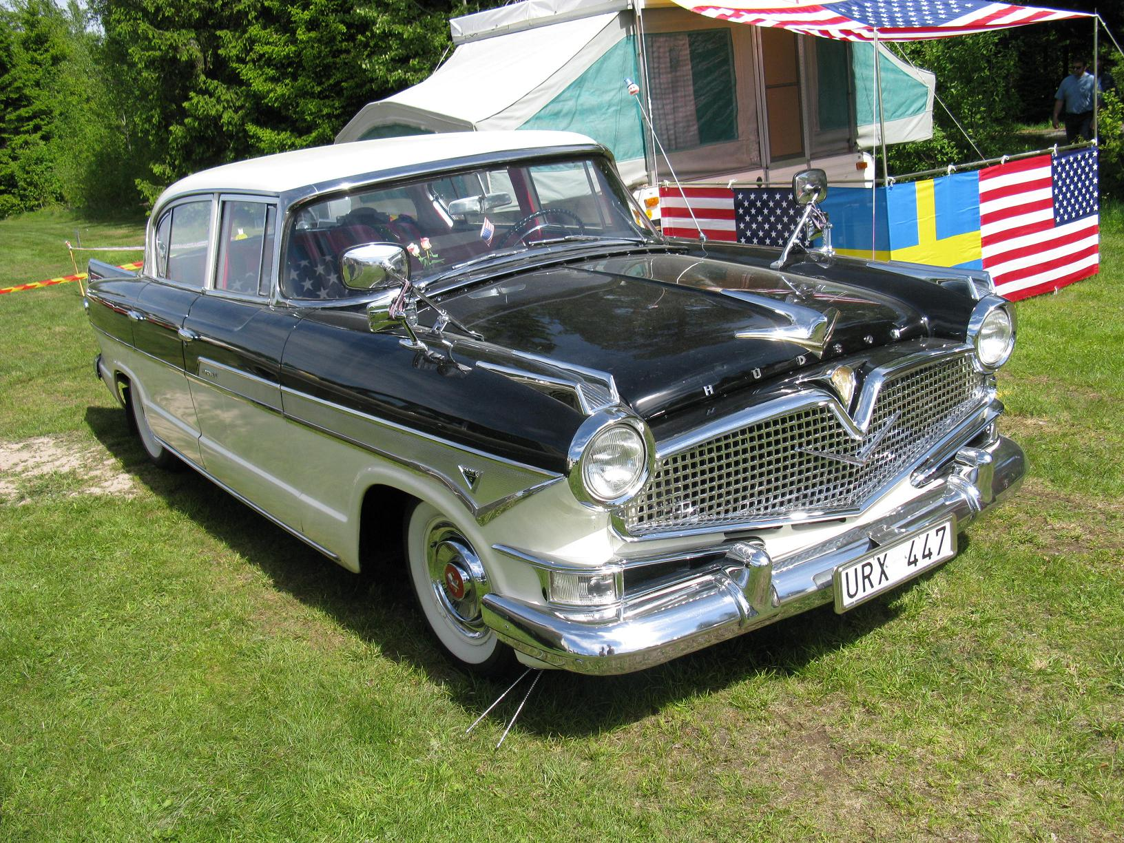 Hudson Hornet 1957 - Note the aftermarket double "curb feeler" mounted on the lower edge of the front fender. A type of short spring mounted "antenna" to help prevent scraping the whitewall tire sidewall against curbs.